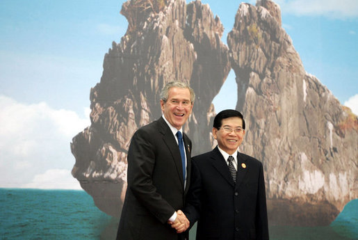 President George W. Bush and President Nguyen Minh Triet of Vietnam share in a photo opportunity Saturday, Nov. 18, 2006, at the National Conference Center in Hanoi prior to the start of the first retreat of the 2006 APEC Summit. White House photo by Paul Morse